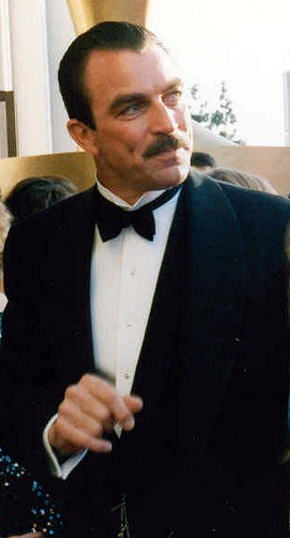 Tom Selleck on the red carpet at the 1989 Academy Awards, March 29, 1989